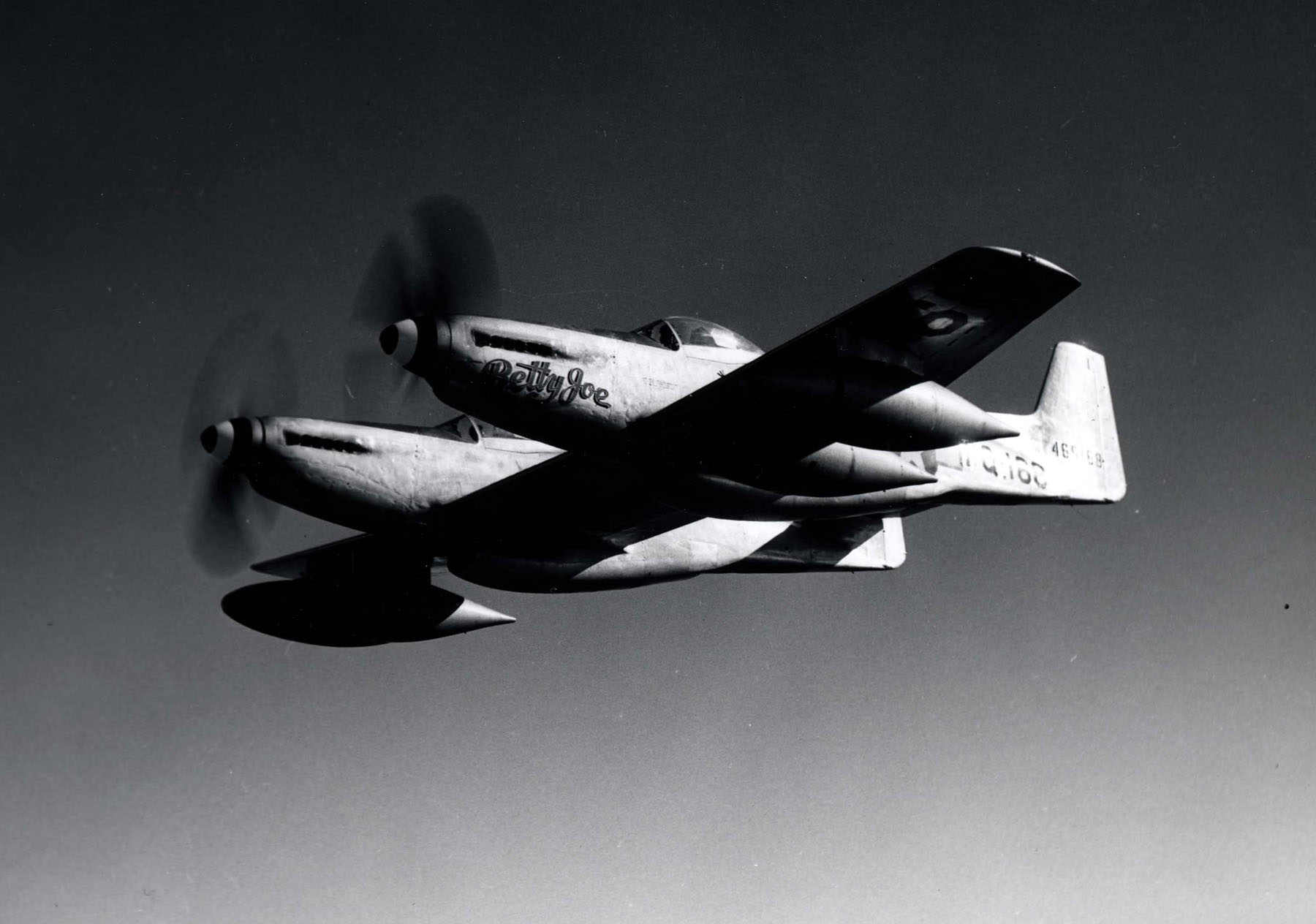 North American F-82B (S/N 44-65168).